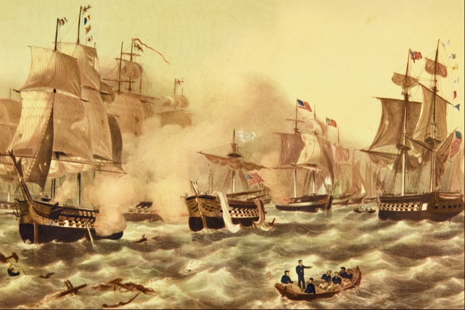 The Battle of Lake Erie, Commodore...